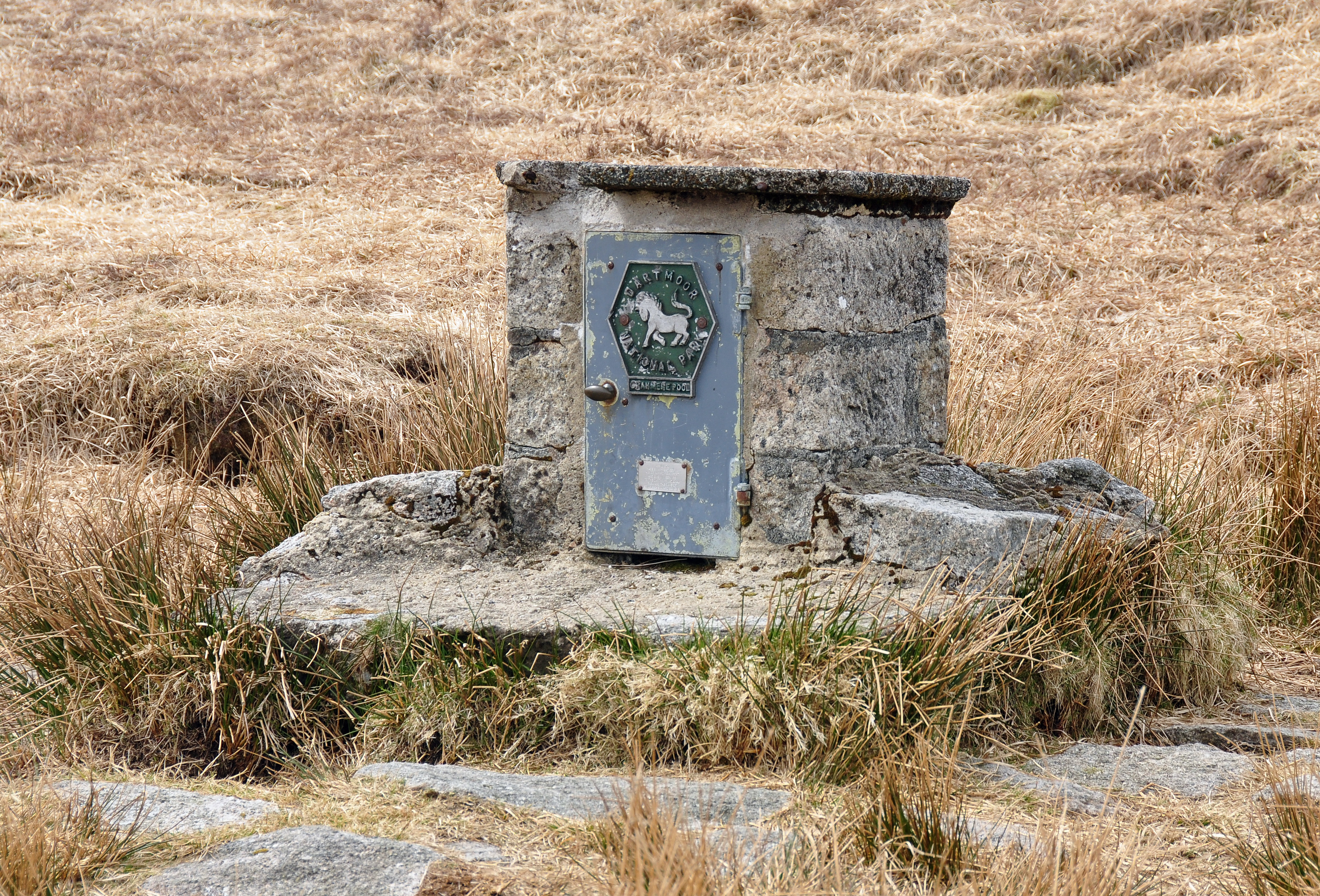 The modern letterbox at Cranmere Pool in the middle of Dartmoor.